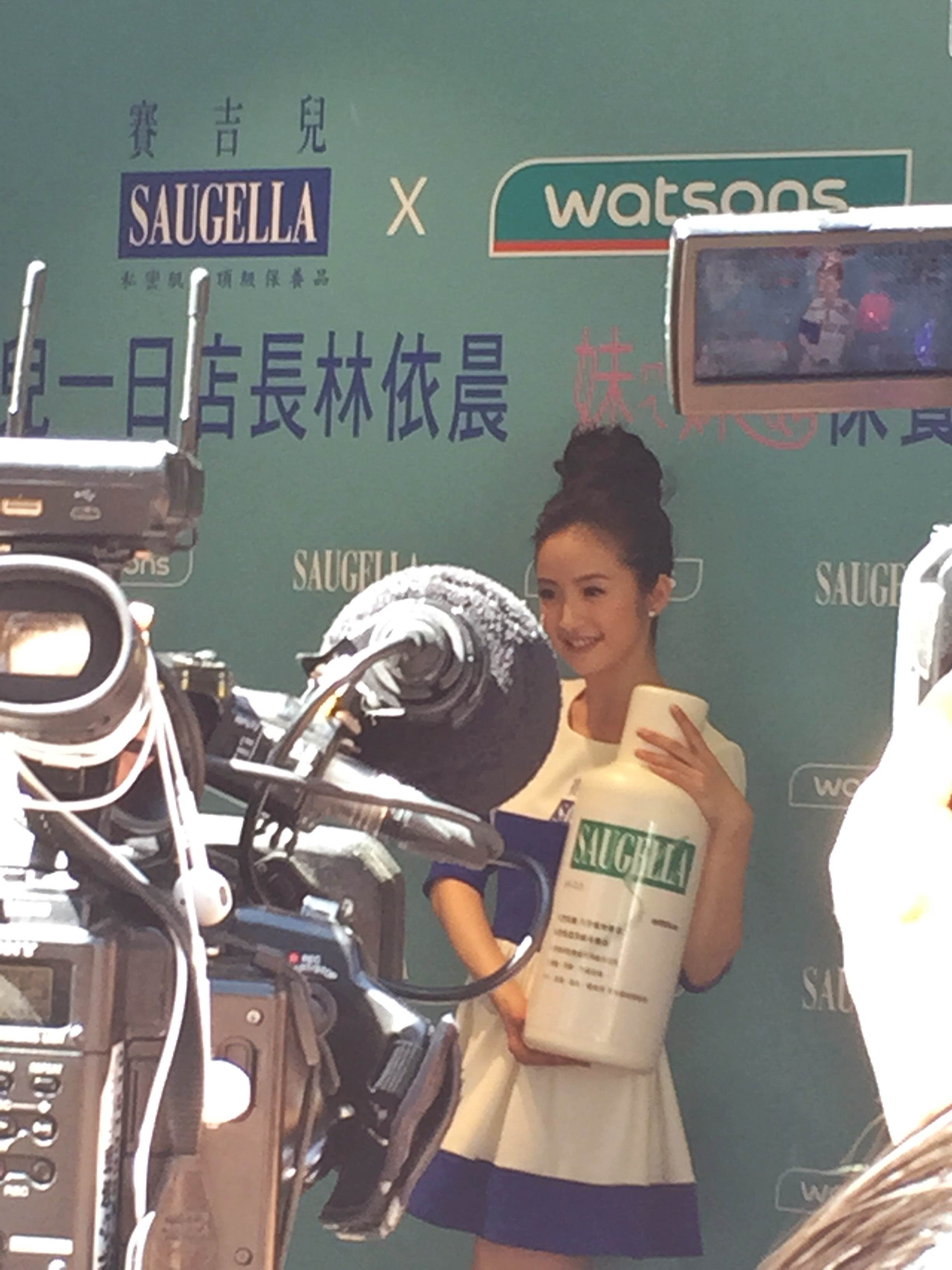 Ariel Lin